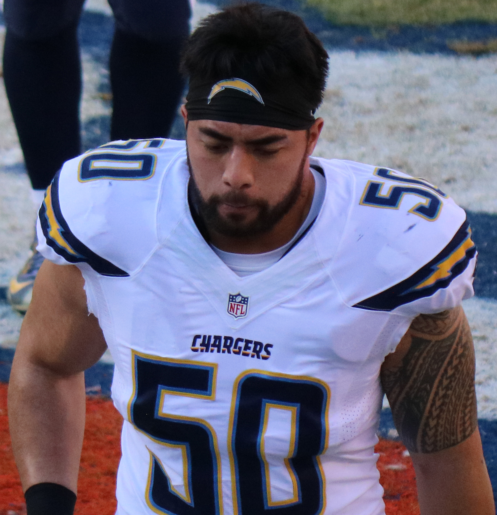 Manti Te'o, a player on the National Football League.